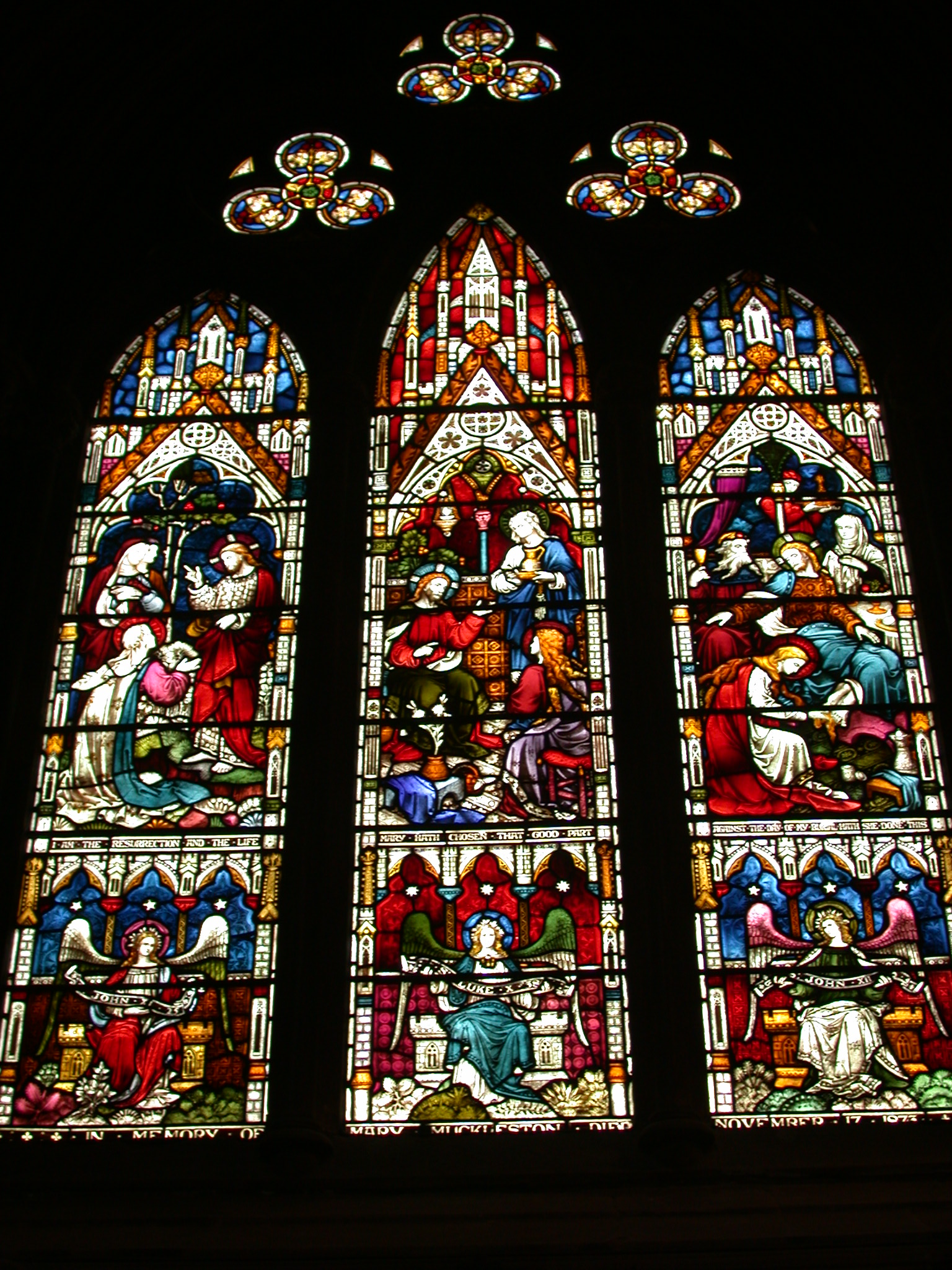 Interior of Lichfield Cathedral, Staffordshire, England.